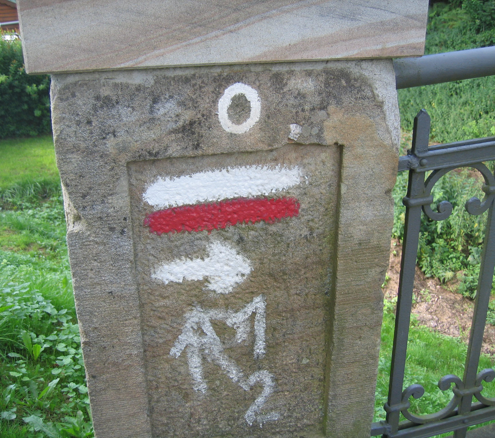 Picture shows a red-white marking that indicates the route of the hiking trail Wittekindsweg that runs all through the Wiehengebirge. This marking is painted on a bridge pillar spanning the railway line from Bünde to Rahden in the town of Rödinghausen-Schwenningdorf, Germany.